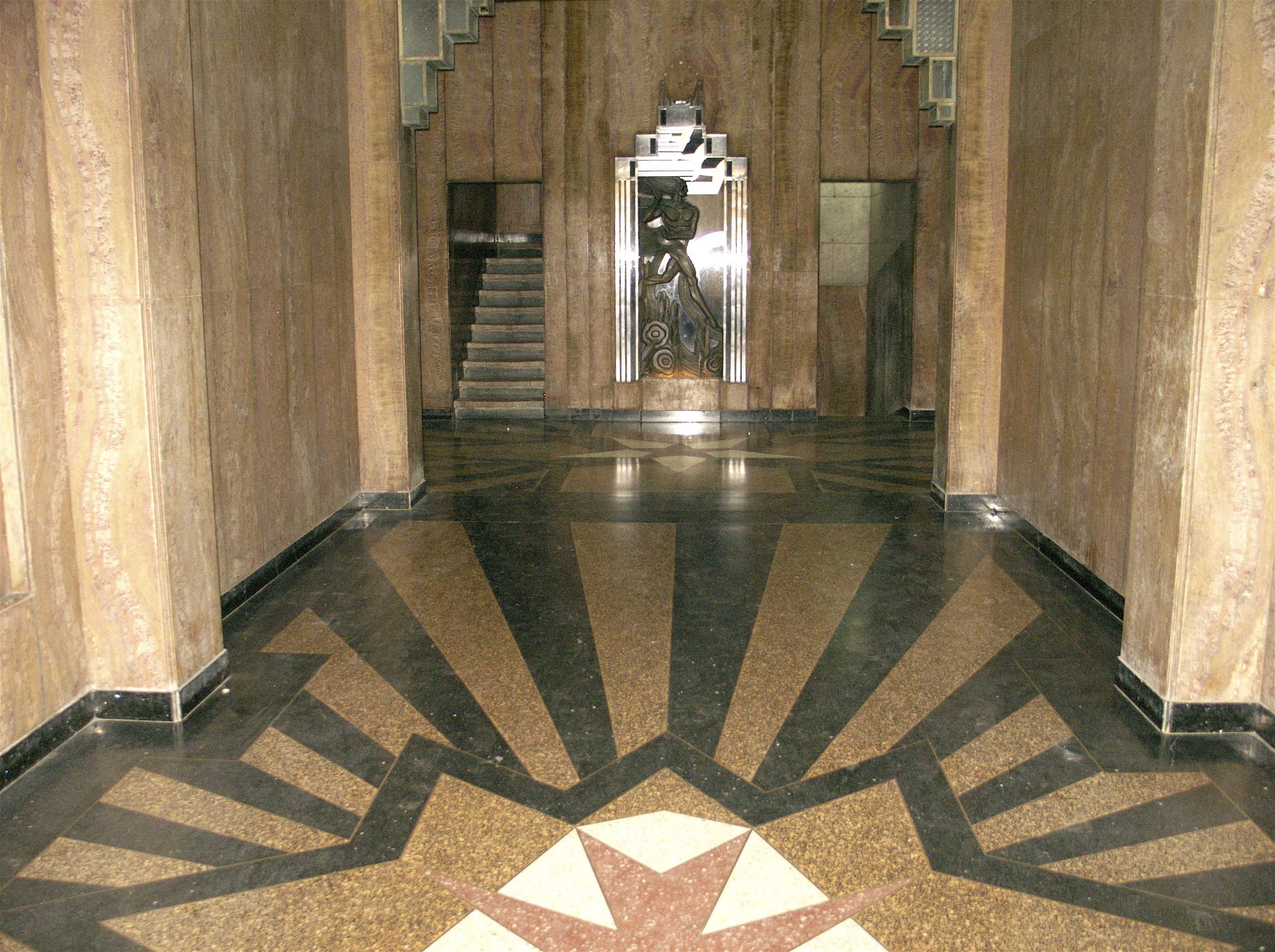 Art Deco architecture in Havana